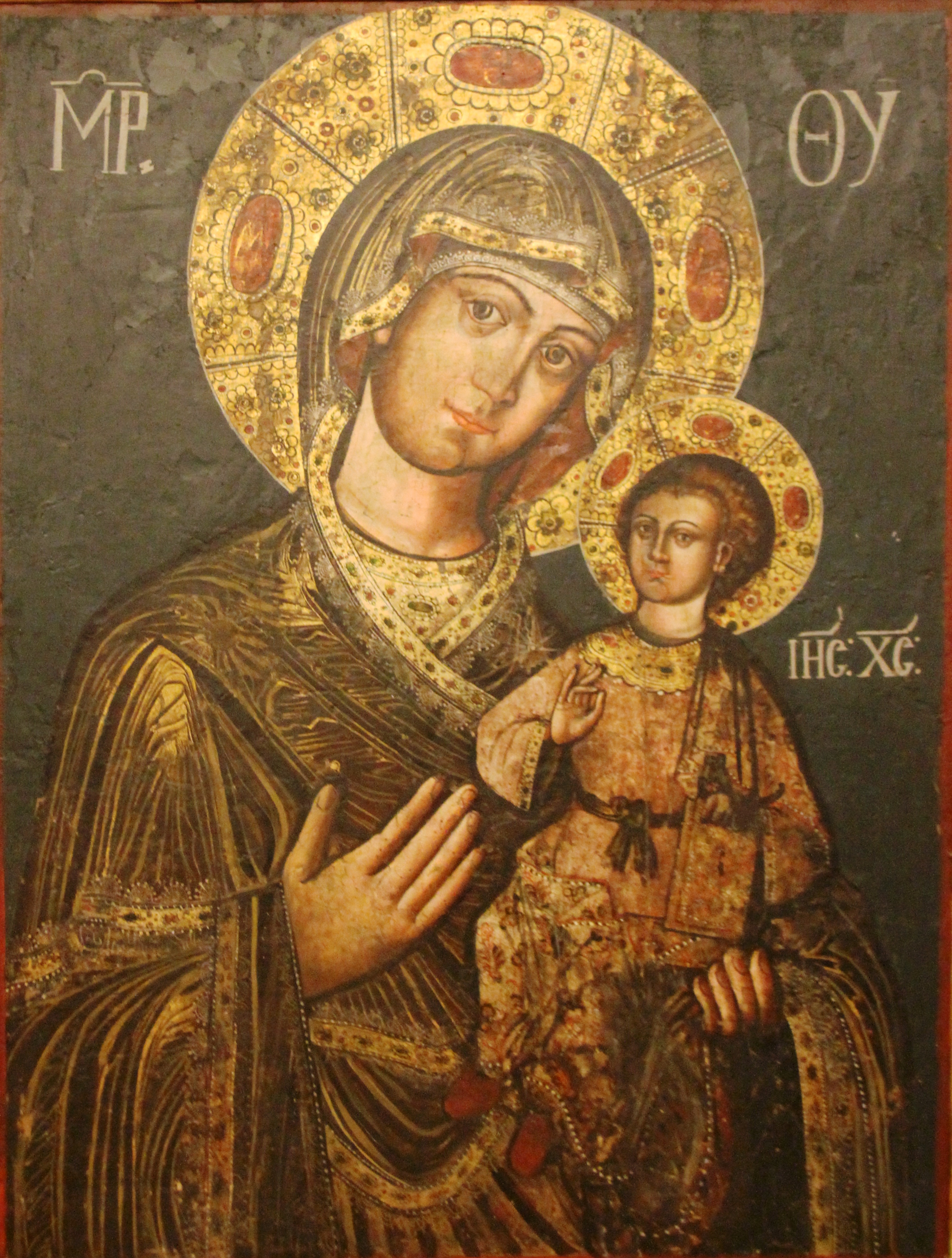 Serbian painting of the Virgin and Jesus from the Grábóc Monastery in Tolna county, Hungary. Exhibit in the Museum of the Serbian Church in Szentendre